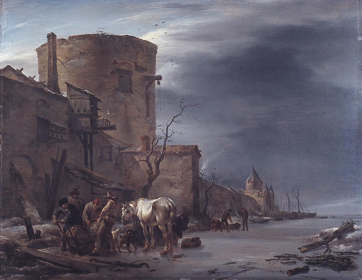 View of the city wall of Haarlem with the Gasthuistoren and the Kleine Houtpoort, in the winter. On the left two men are loading beer barrels onto a sled. To the right two men are playing kolf. Against the wall are two dovecotes. Possibly Pendant of File:Nicolaes Pietersz. Berchem - Winter Landscape near a Town.jpg.